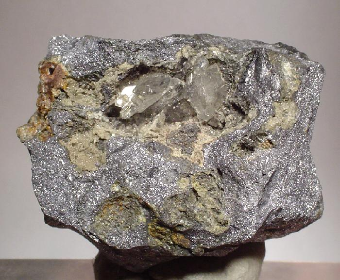 Anglesite, Galena Locality: Monteponi Mine, Iglesias, Carbonia-Iglesias Province, Sardinia, Italy (Locality at ) Size: 4.8 x 4.0 x 3.0 cm. Water-clear, glassy anglesite blades to 1.0 cm are attractively set in a vug of massive, specular galena on this showy old-time piece from a classic Italian locality - Monteponi in Sardinia. Highly representative of the species and historic locale. Accompanied by an expertly handwritten, faded label from an older collection. The collection this came out of was a museum stash dating to prior to World War I.